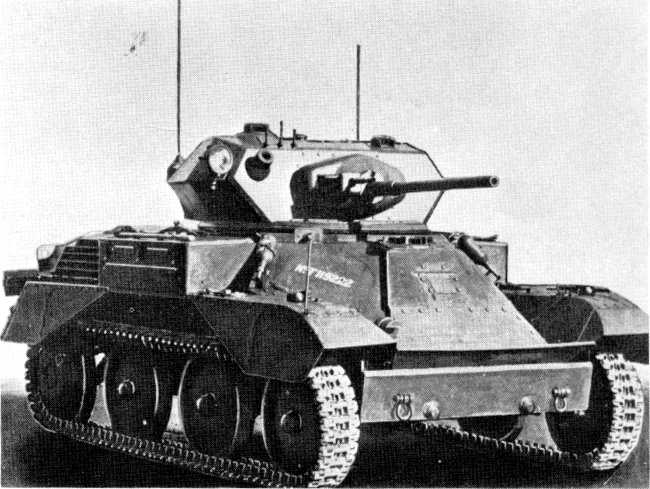 Vickers-Armstrong Light Tank Mark VIII